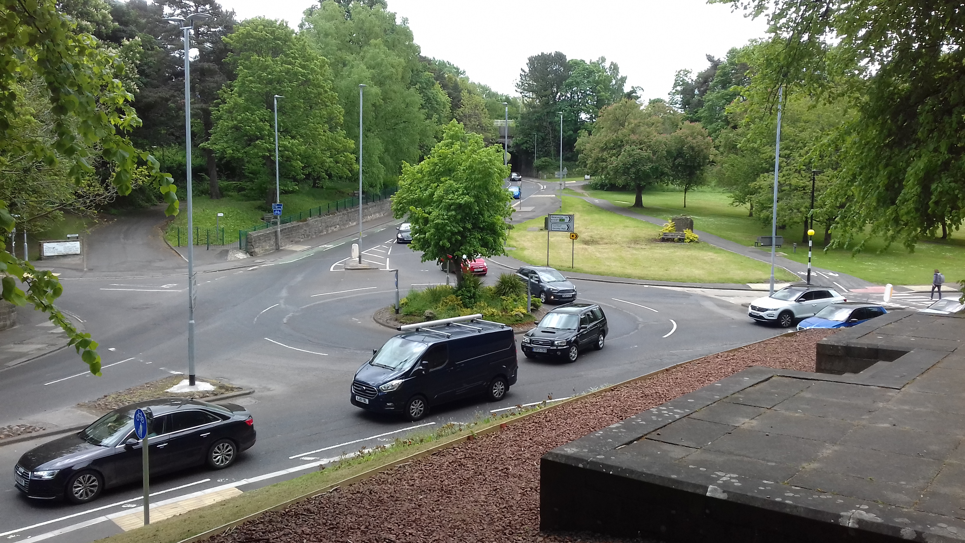 View of Mafeking Park, which is now a roundabout